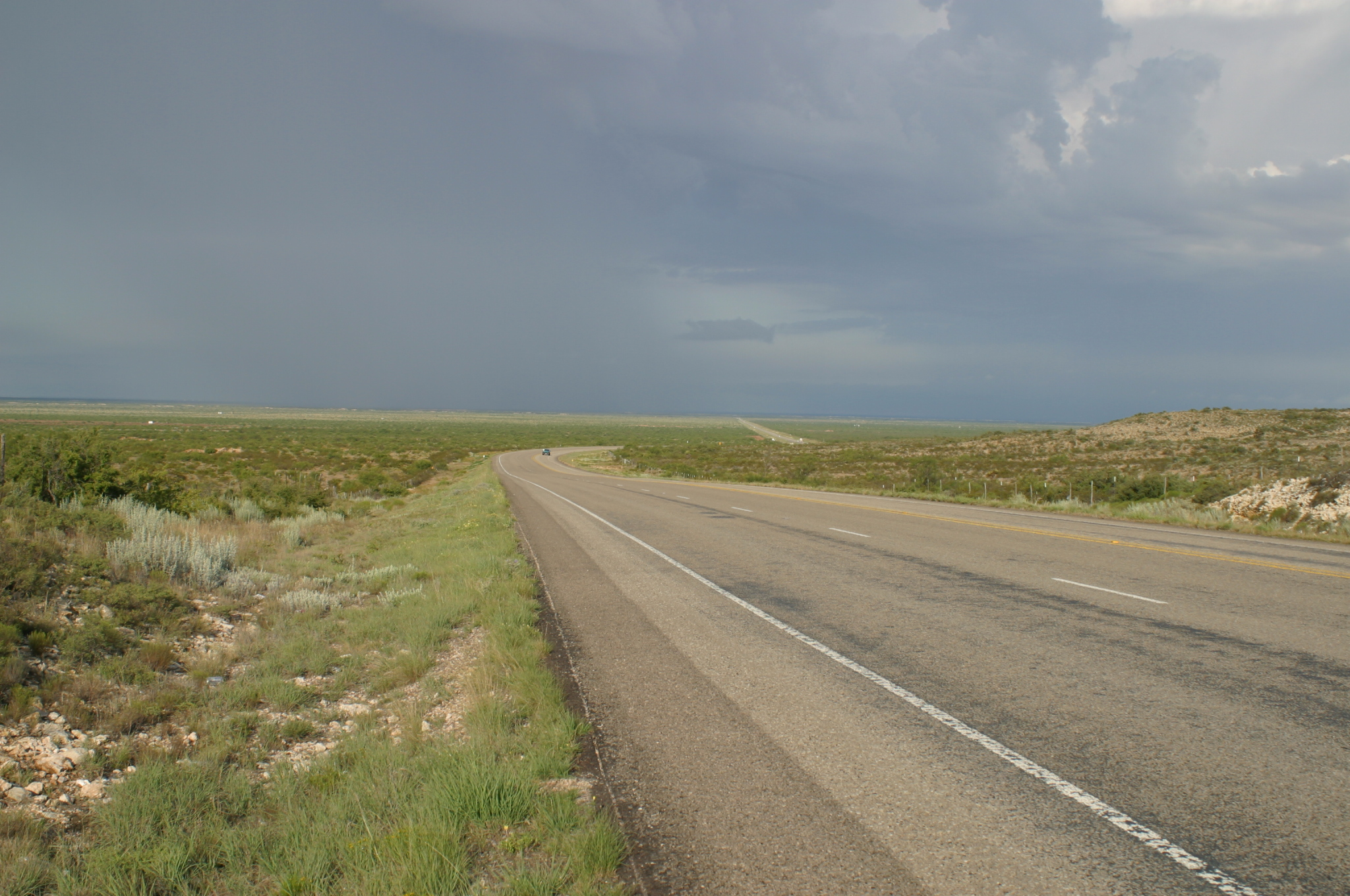 Looking west toward a distant storm along Texas State Highway 302 about 3 km west of Notrees, Texas.